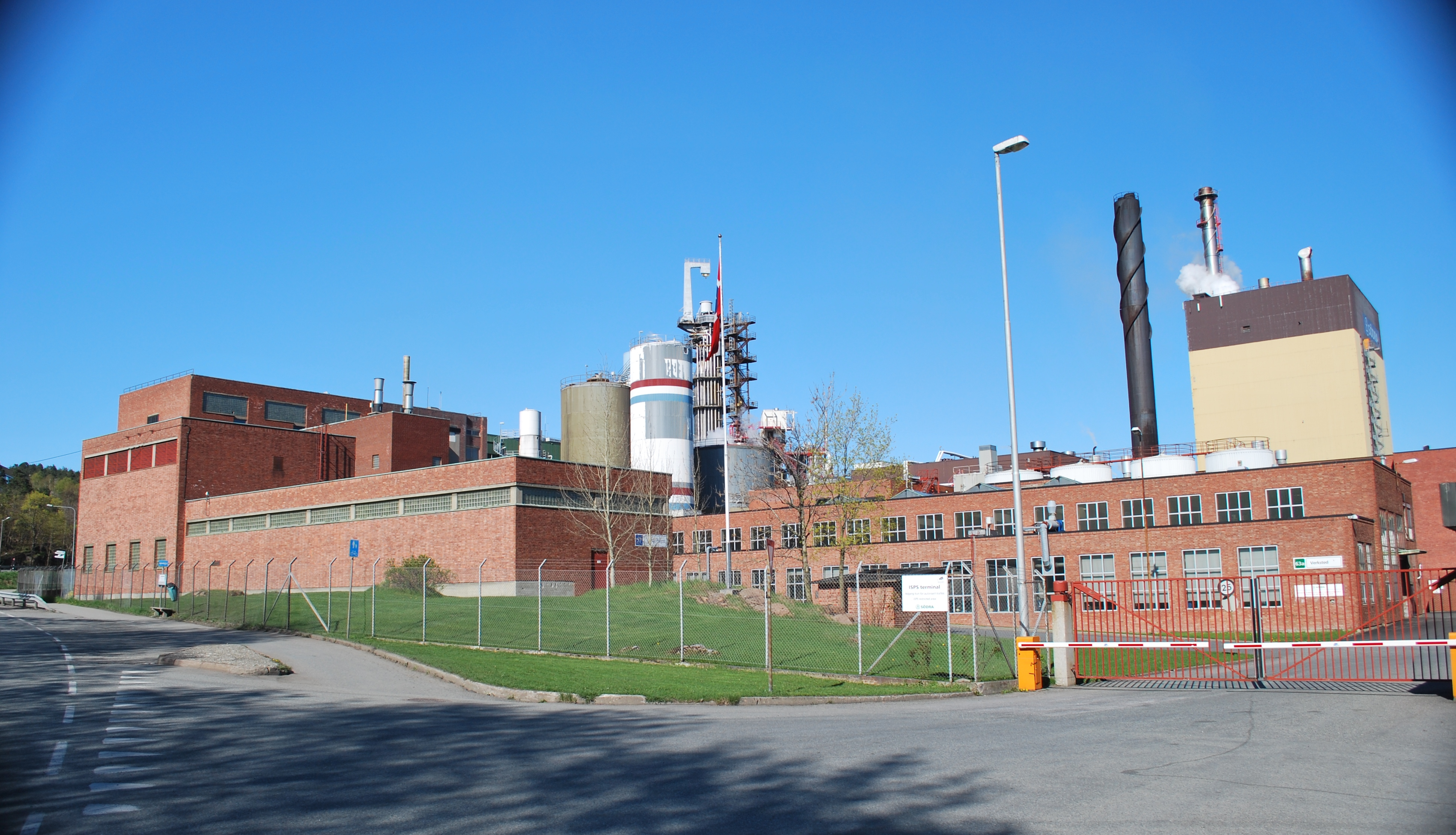 Sødra Cell factory, Tofte, Hurum, upper area